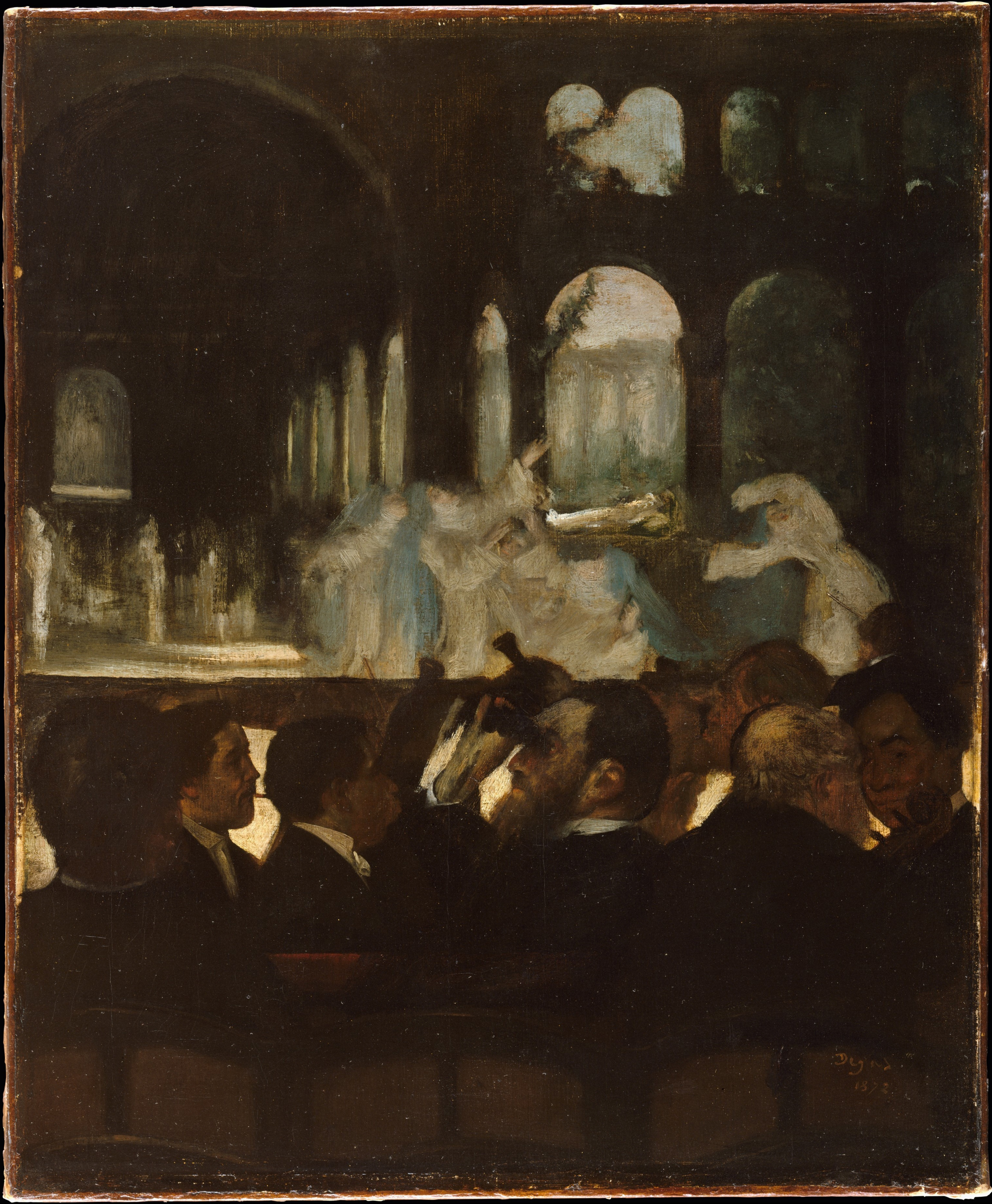 Edgar Degas, The Ballet from Robert le Diable, The Metropolitan Museum of Art. Oil on canvas. 26 x 21 3/8 in. (66 x 54.3 cm)